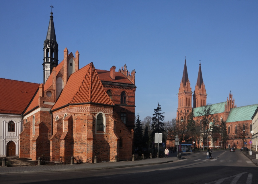 Włocławek, seminary church of St. Vitalis (on the left) and cathedral (on the right).